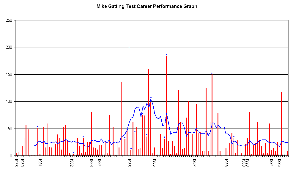 This graph details the Test Match performance of Mike Gatting. It was created by Raven4x4x. The red bars indicate the player's test match innings, while the blue line shows the average of the ten most recent innings at that point. Note that this average cannot be calculated for the first nine innings. The blue dots indicate innings in which Gatting finished not-out. This graph was generated with Microsoft Excel 2002, using data from Cricinfo and .au.